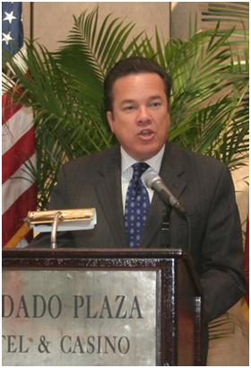 First Hispanic American Veterans Summit San Juan, Puerto Rico